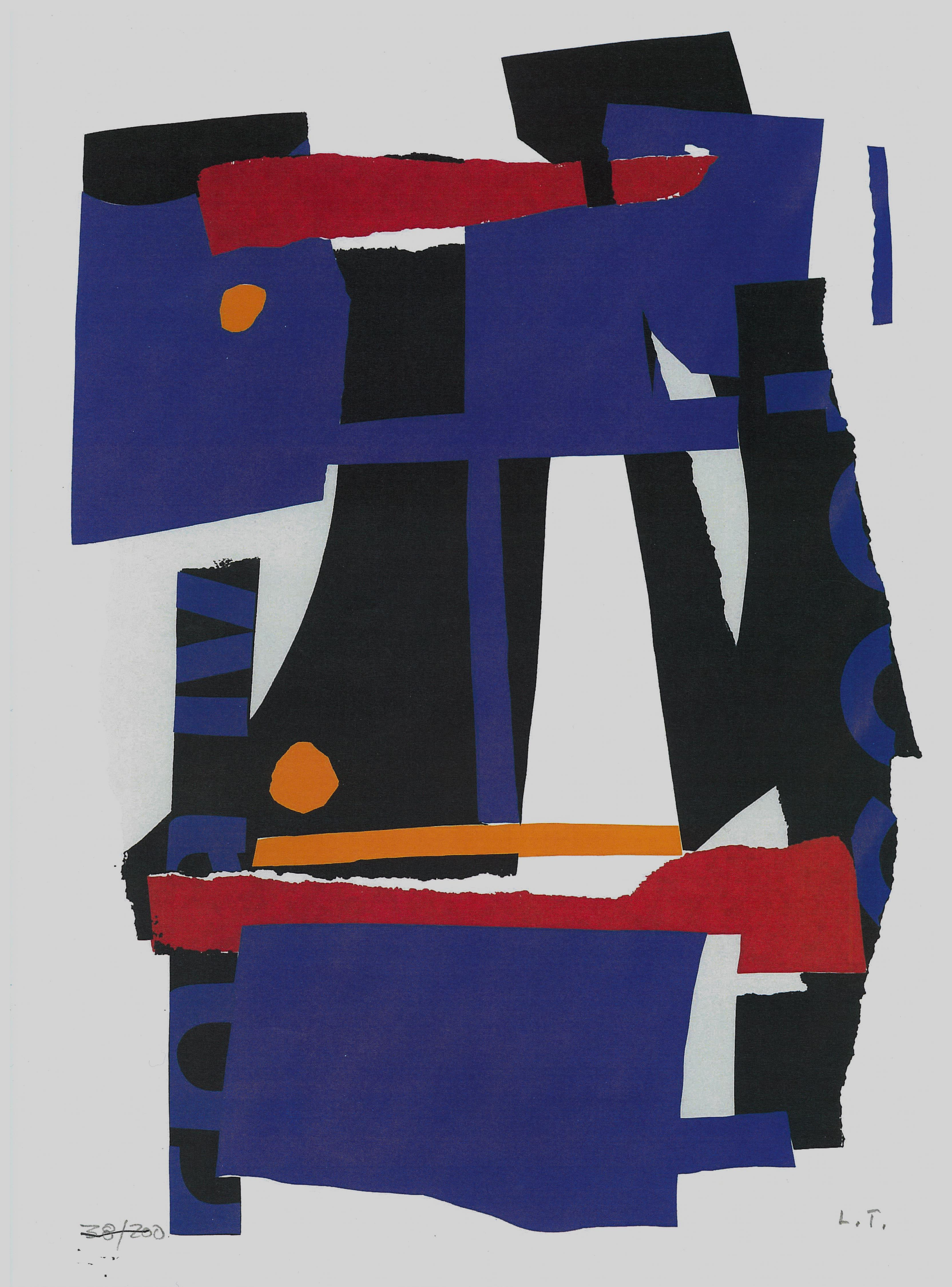 serigraphy by the Norwegian artist Lars Tiller